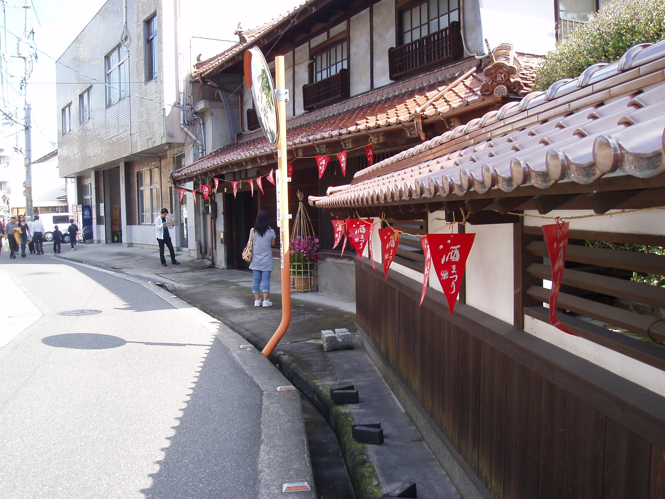 SAKAGURA-Street in Saijyo, Hiroshima on Sake festival 2009